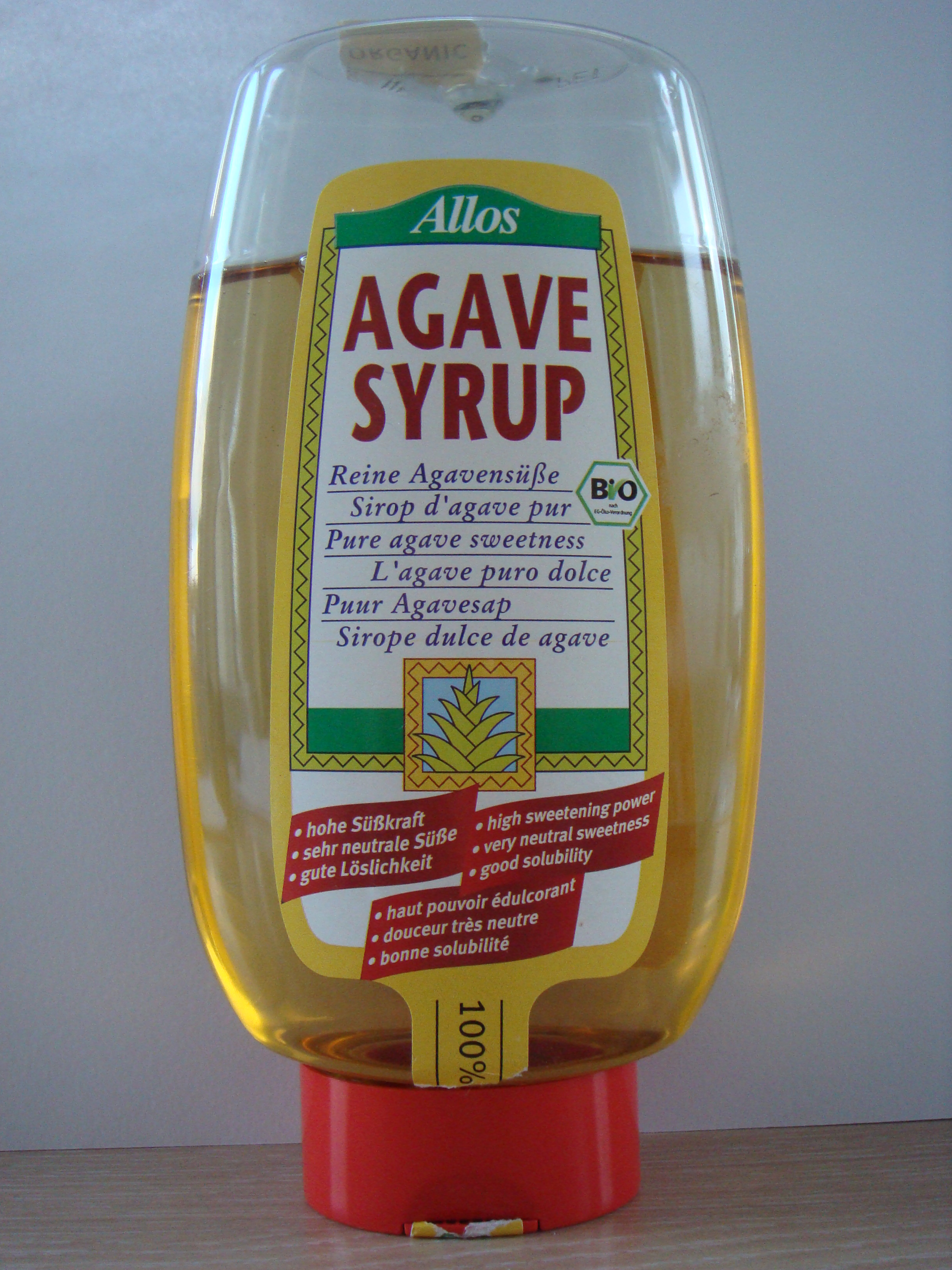 A photo of agave syrup bottle